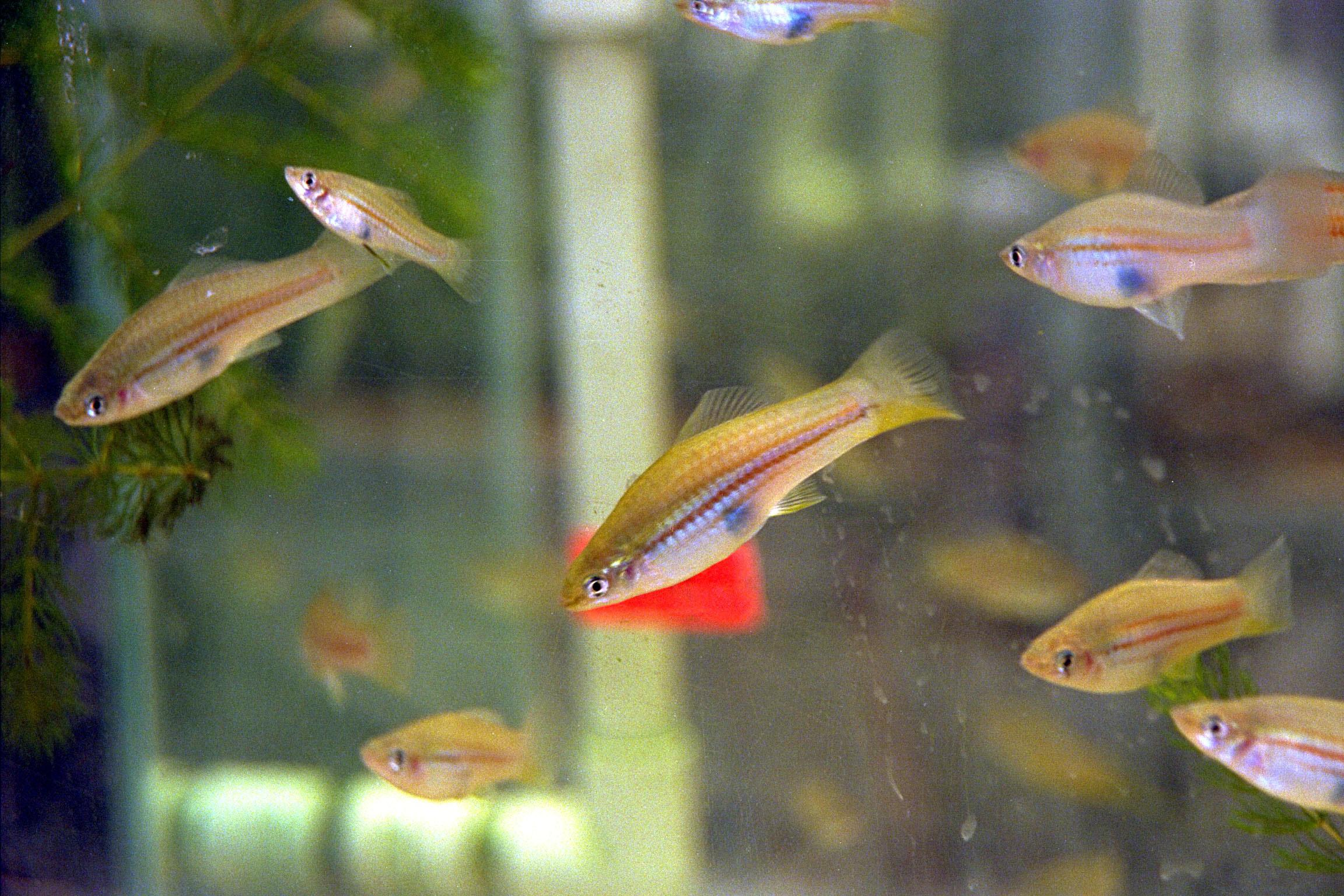 KENNEDY SPACE CENTER, FLA. – Swordtail fish (Xiphophorus helleri), like those that are part of the Neurolab payload on Space Shuttle Mission STS-90, are shown in their holding tank in the Operations and Checkout Building. The fish will fly in the Closed Equilibrated Biological Aquatic System (CEBAS) Minimodule, a middeck locker-sized fresh water habitat, designed to allow the controlled incubation of aquatic species in a self-stabilizing, artifical ecosystem for up to three weeks under space conditions. Investigations during the Neurolab mission will focus on the effects of microgravity on the nervous system. The crew of STS-90, slated for launch April 16 at 2:19 p.m. EDT, include Commander Richard Searfoss, Pilot Scott Altman, Mission Specialists Richard Linnehan, D.V.M., Dafydd (Dave) Williams, M.D., and Kathryn (Kay) Hire, and Payload Specialists Jay Buckey, M.D., and James Pawelczyk, Ph.D.